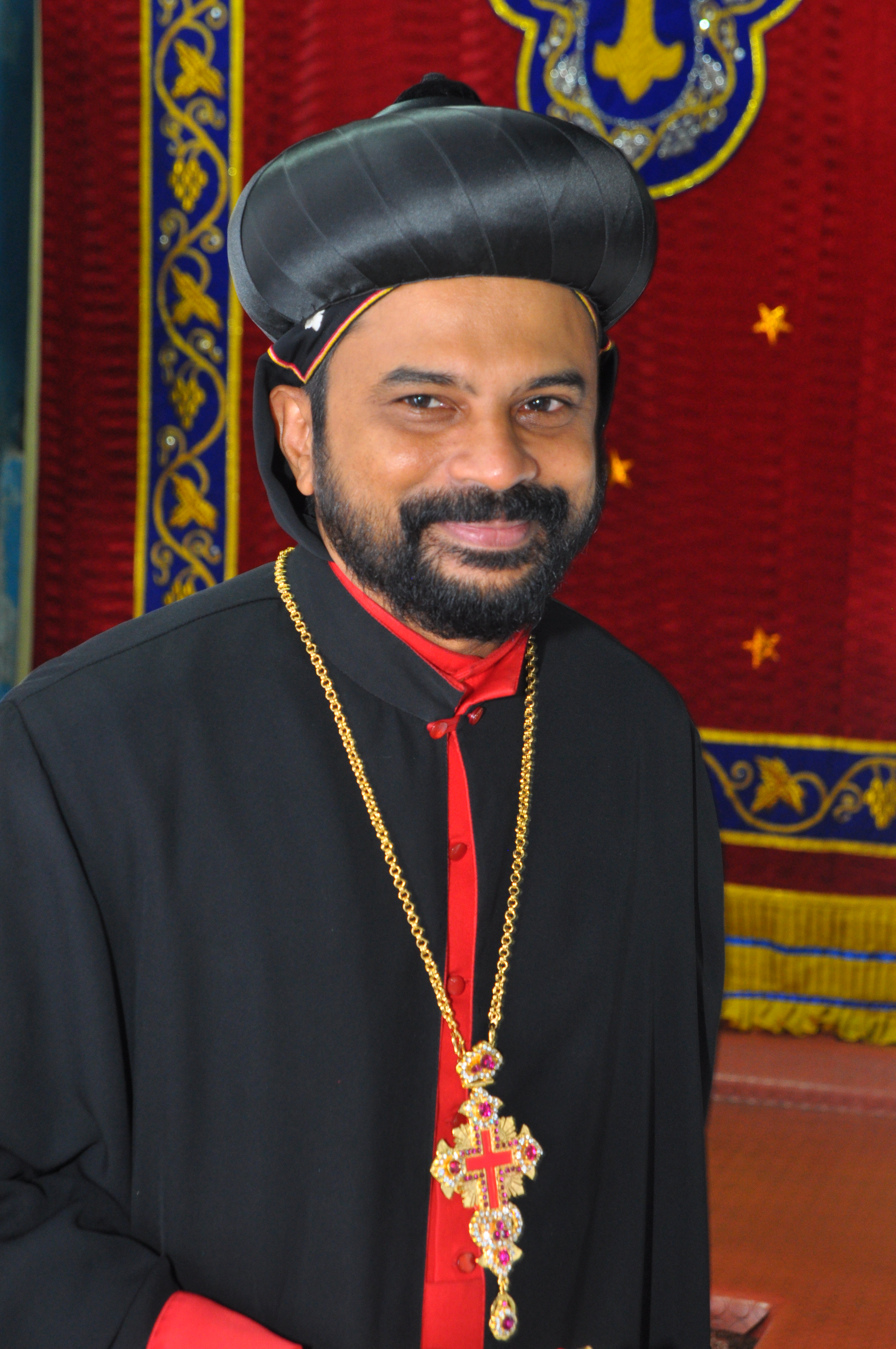 Mor Eusebius Kuriakose at Kothamangalam Church.